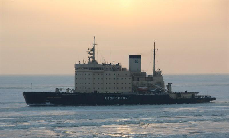 Icebreaker Kapitan Nikolaev